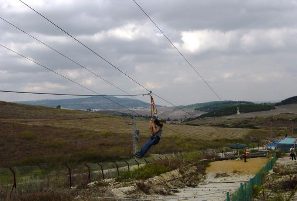 Tyrolean crossing near Ramat Hashofet at Ramot Menashe